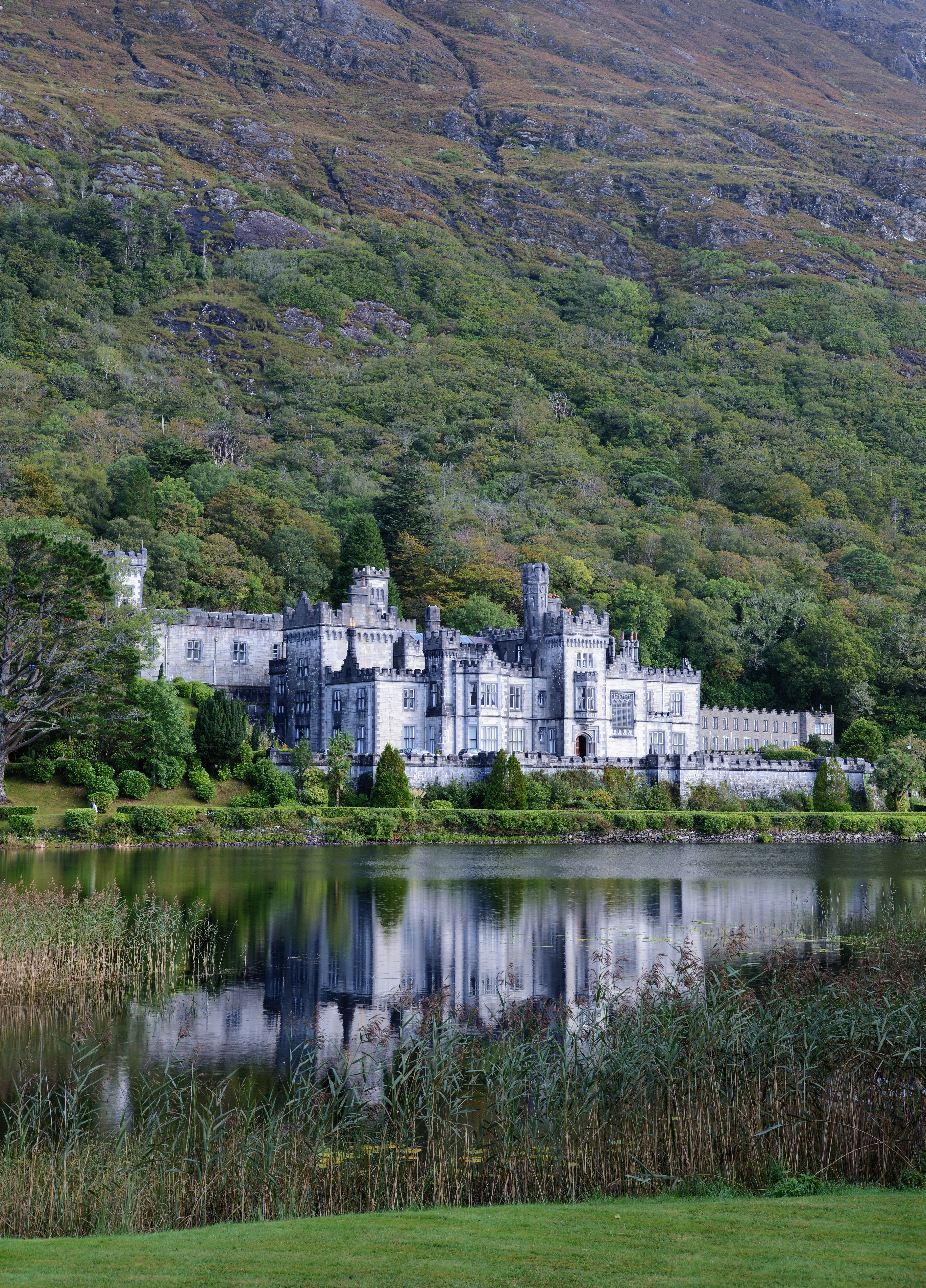 The Abbey of Kylemore, Ireland